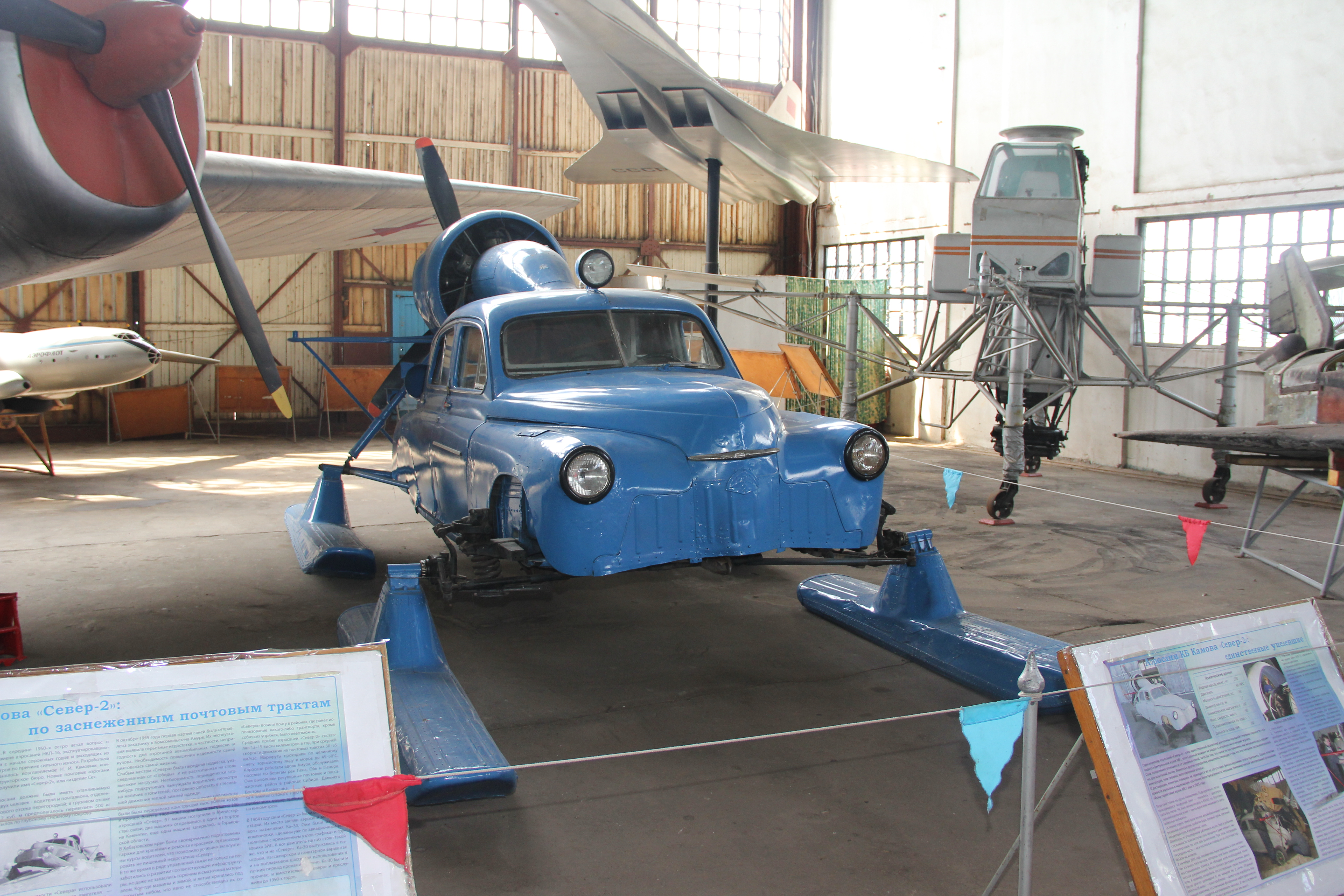 Kamov Sever-2 Snow Mobile at the Central Air Force Museum in Monino, Moscow